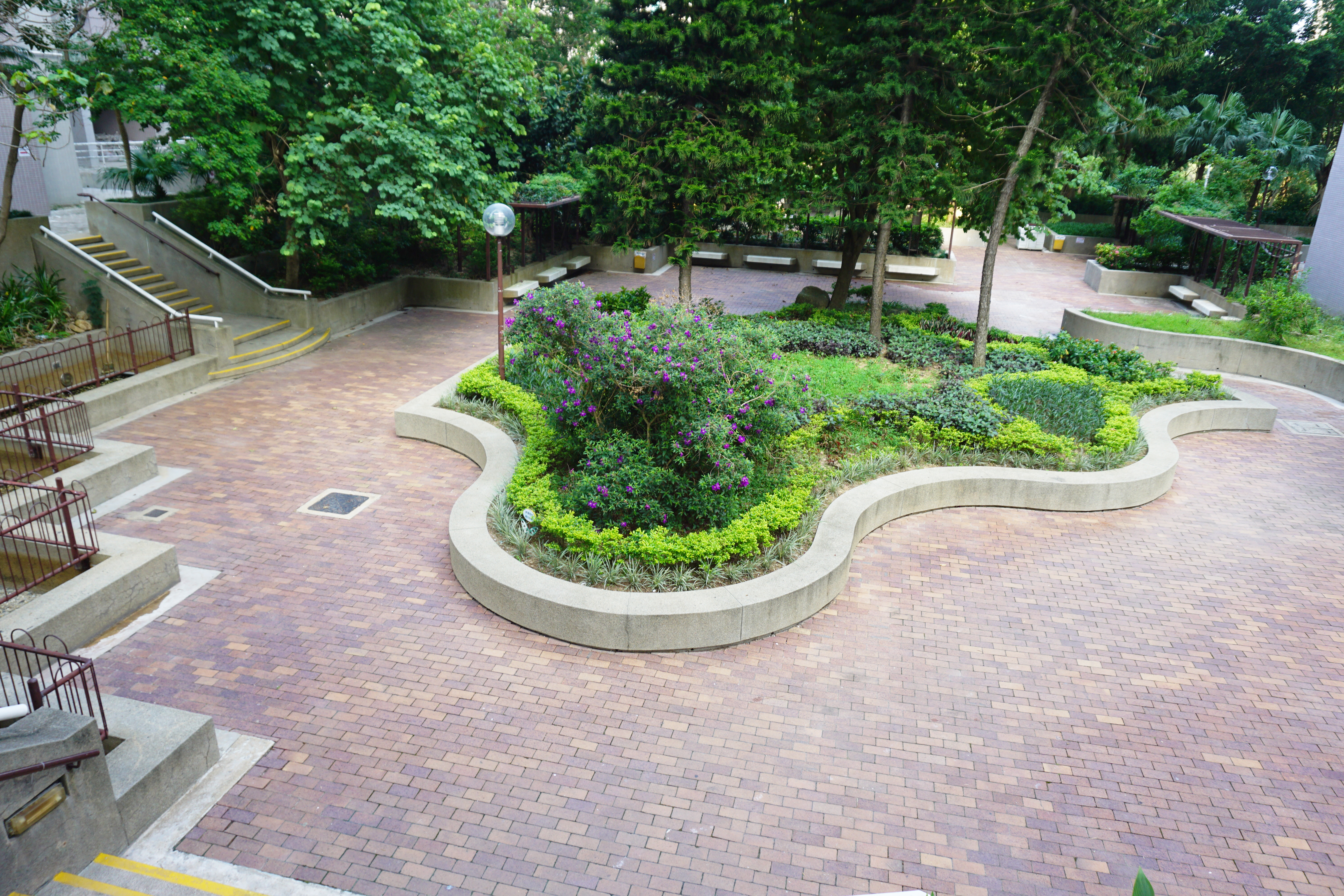 King Ming Court in Tseung Kwan O, Hong Kong.